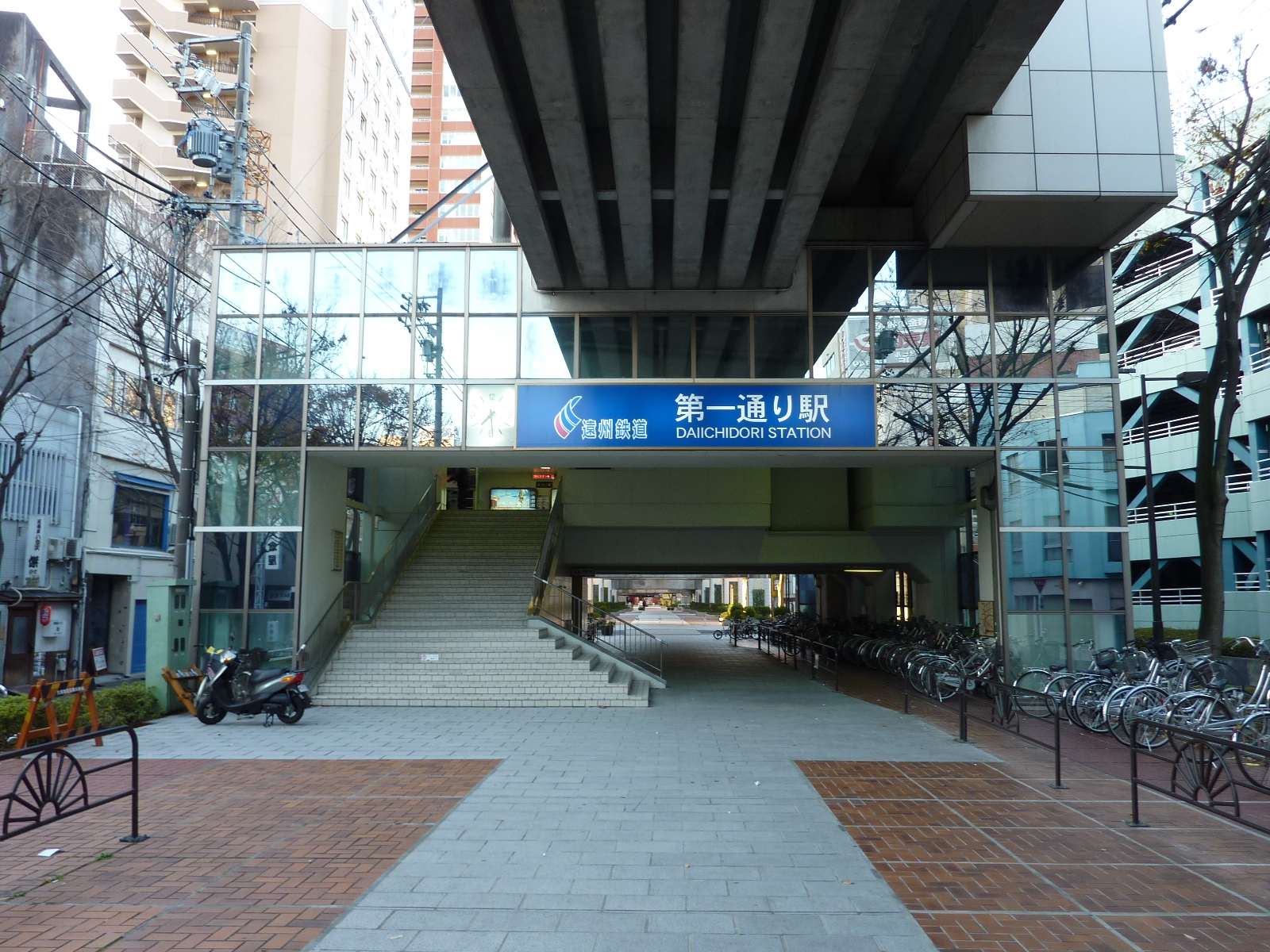 Daiichi-dori Station on Enshu Railway. (230-28,Tamachi,Naka-ku,Hamamatsu-shi,Shizuoka-ken,JAPAN)